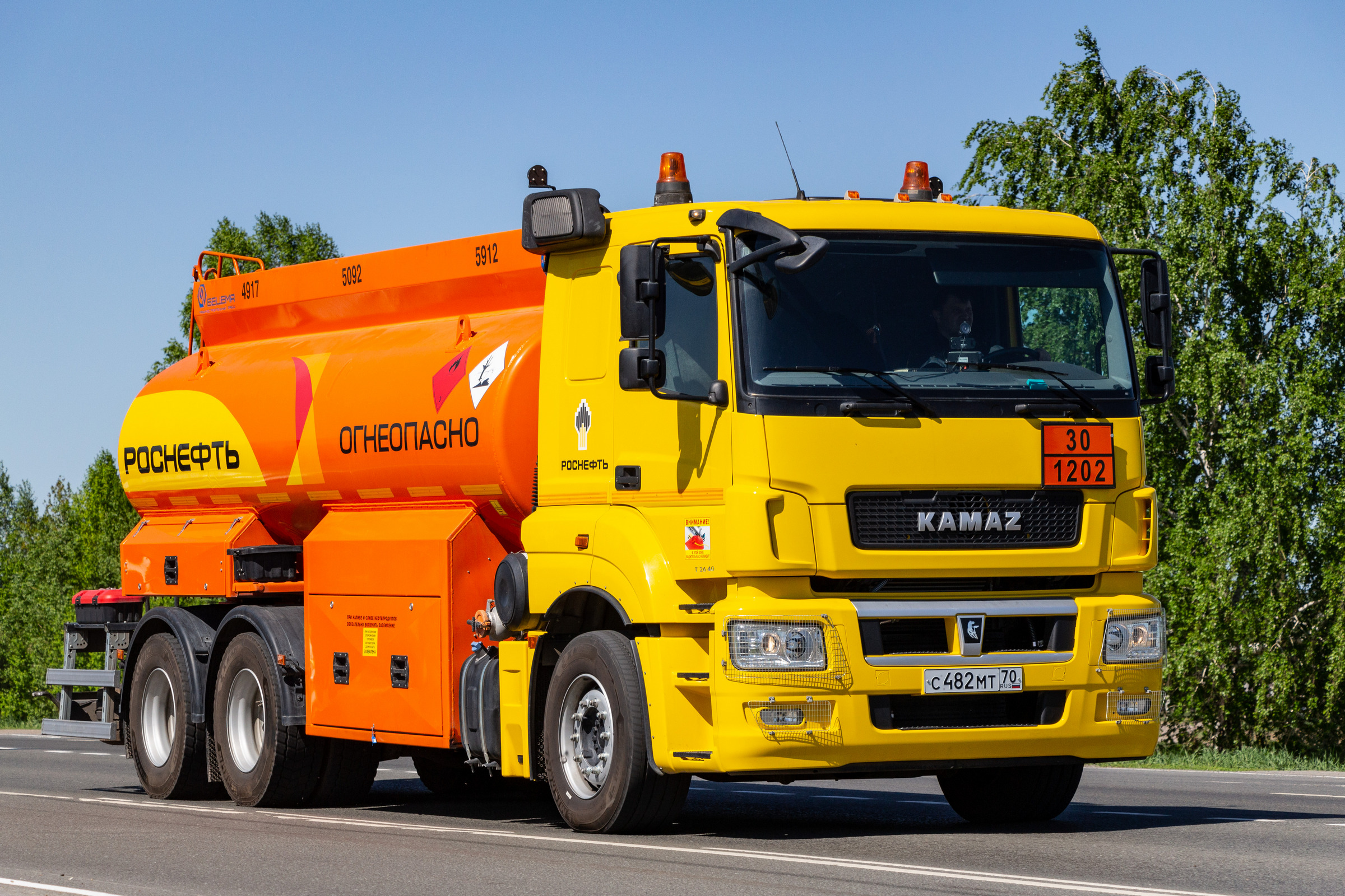 Fuel tank truck based on KAMAZ-65207 chassis in Tomsk, Russia